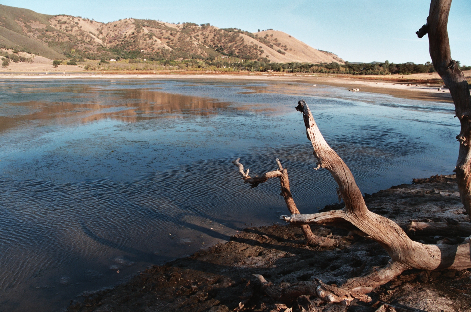 Borax Lake — an endorheic lake in Lake County, northern California. The Borax Lake Site is a Clovis culture archaeological site on the National Register of Historic Places in California.